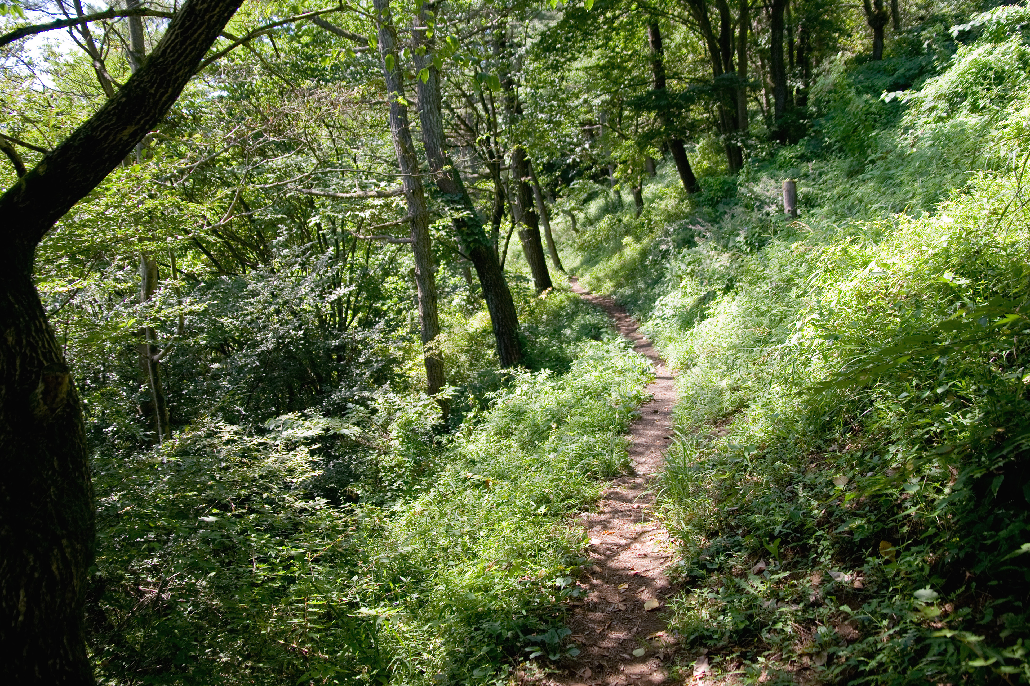 Mountain climbing trail of Mt.Yaguradake, Hakone Mountains, Kanagawa Pref, Honshu, Japan.